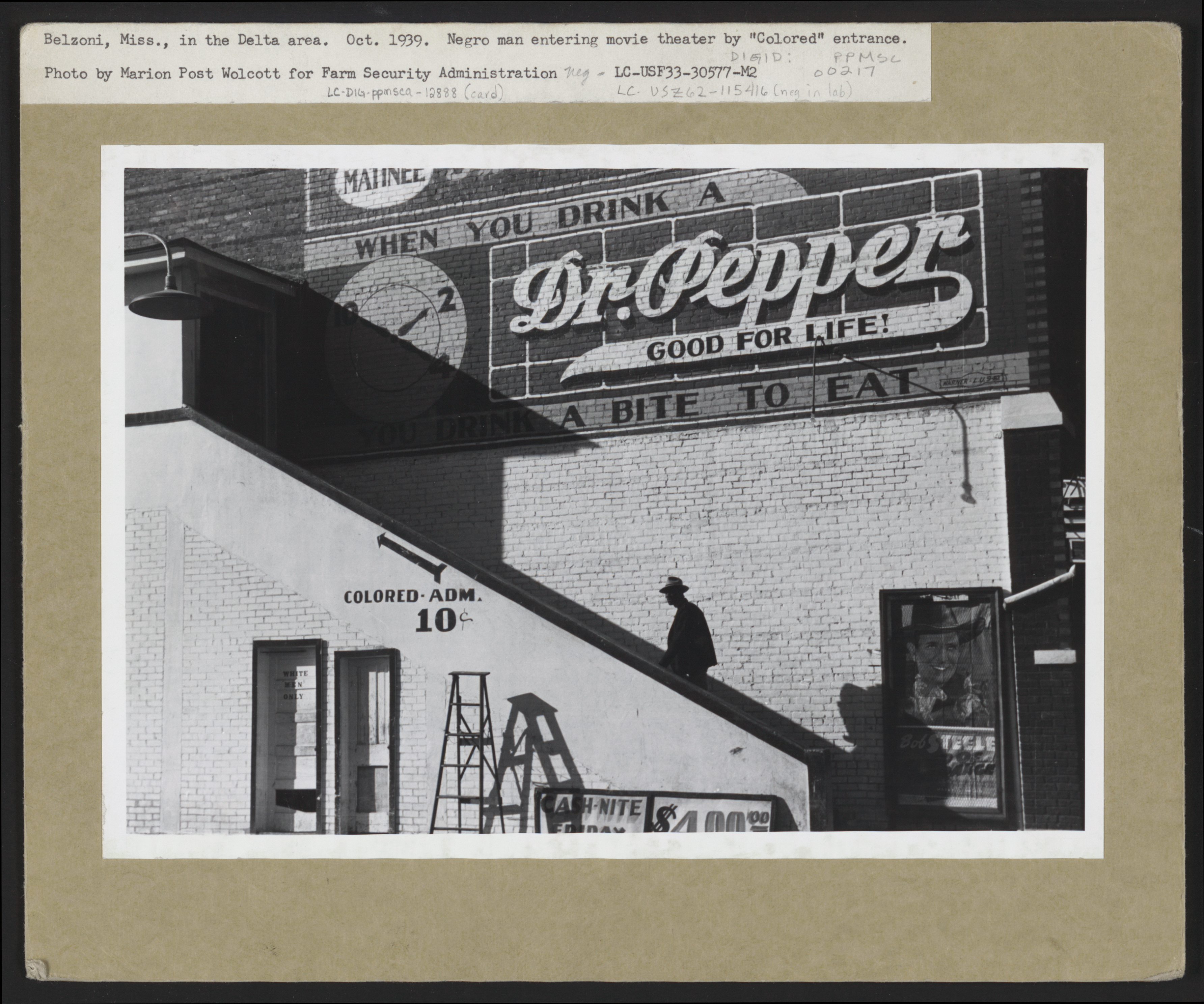 African-American patron going in colored entrance of movie house on Saturday afternoon, Belzoni, Mississippi Delta, Mississippi.